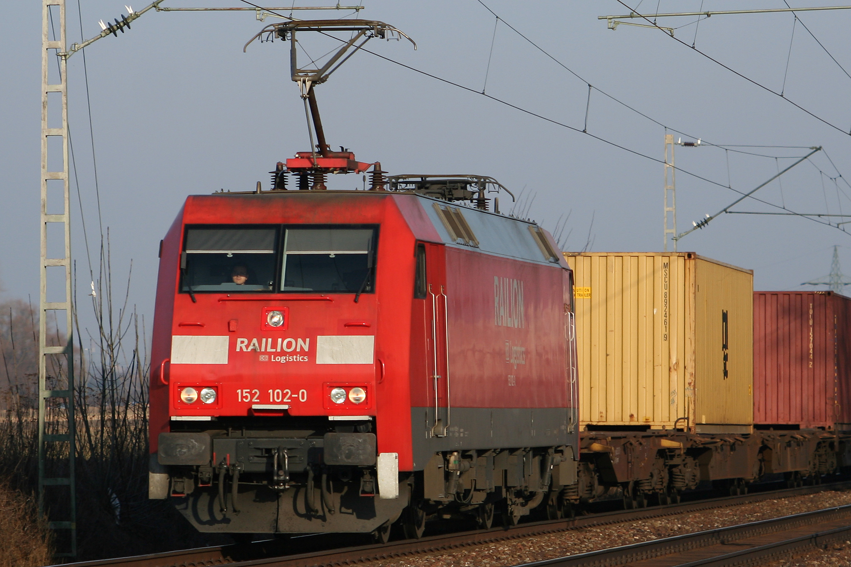 A DB class 152 locomotive near Gaimersheim.